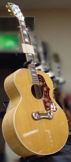 Gibson J-200